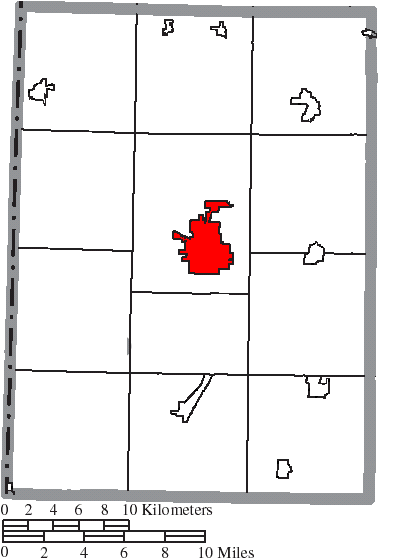 Map of the municipal and township boundaries of Preble County, Ohio, United States, as of the 2000 census, with the location of the city of Eaton highlighted. Township borders are shown only in unincorporated areas in order to differentiate incorporated and unincorporated areas more clearly.